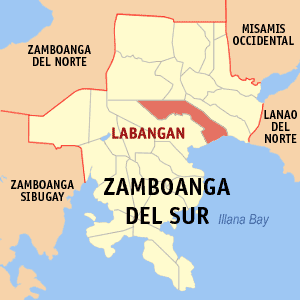 Map of Zamboanga del Sur showing the location of Labangan